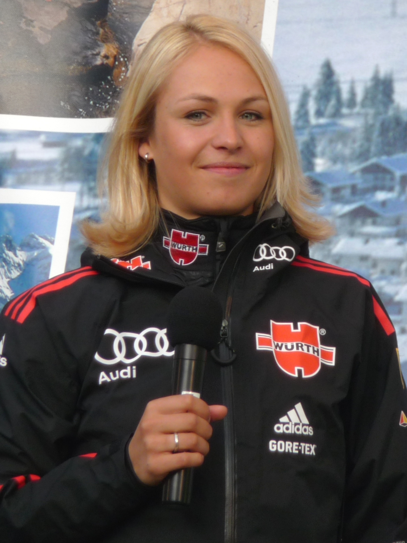 Biathlete Magdalena Neuner at a festivity in Wallgau, Germany, April 29, 2011